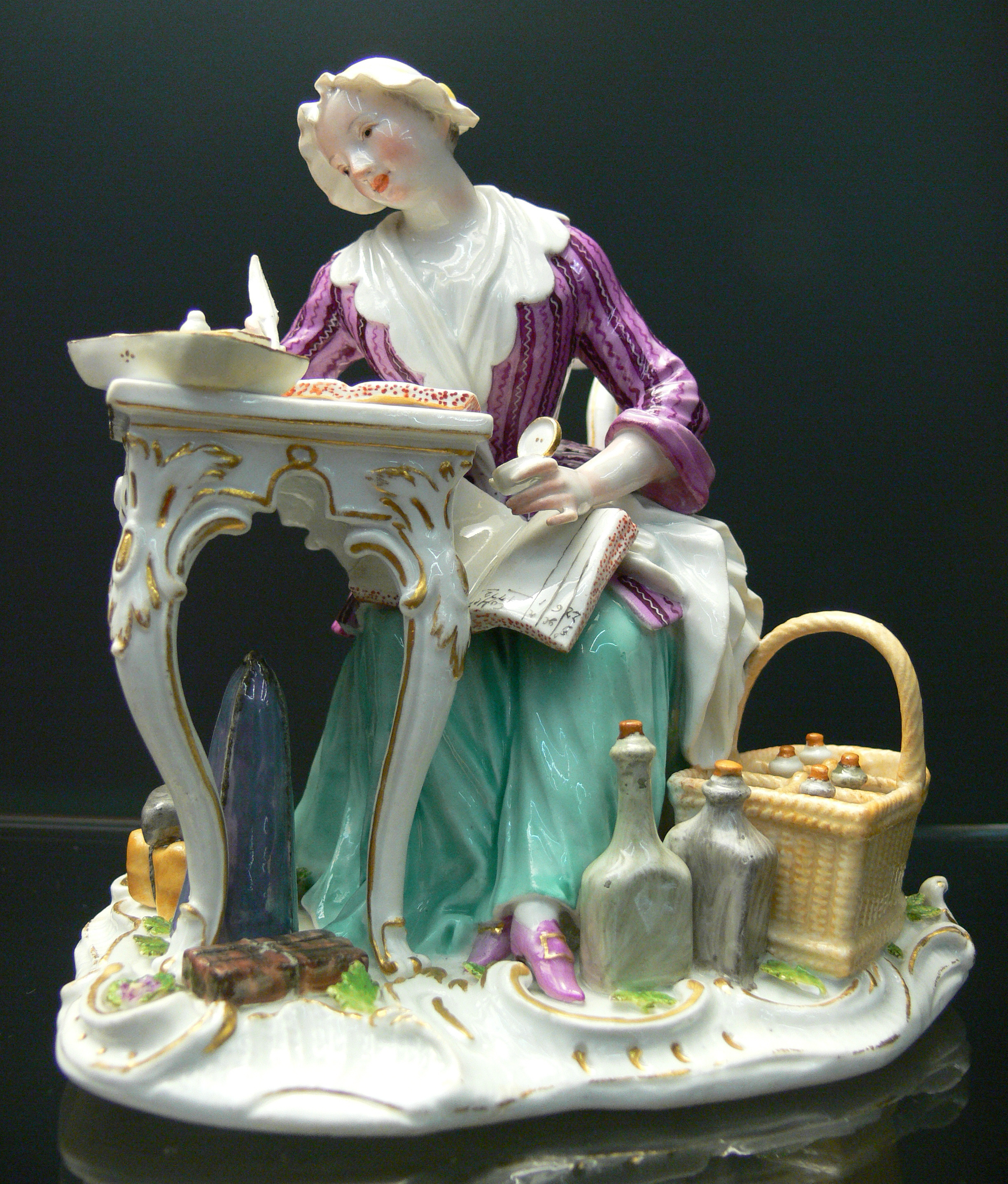 Female merchant writing, Meissen porcelain sculpture, 1772. Reiss-Engelhorn-Museen, Mannheim (displayed at the Zeughaus location of the museum).